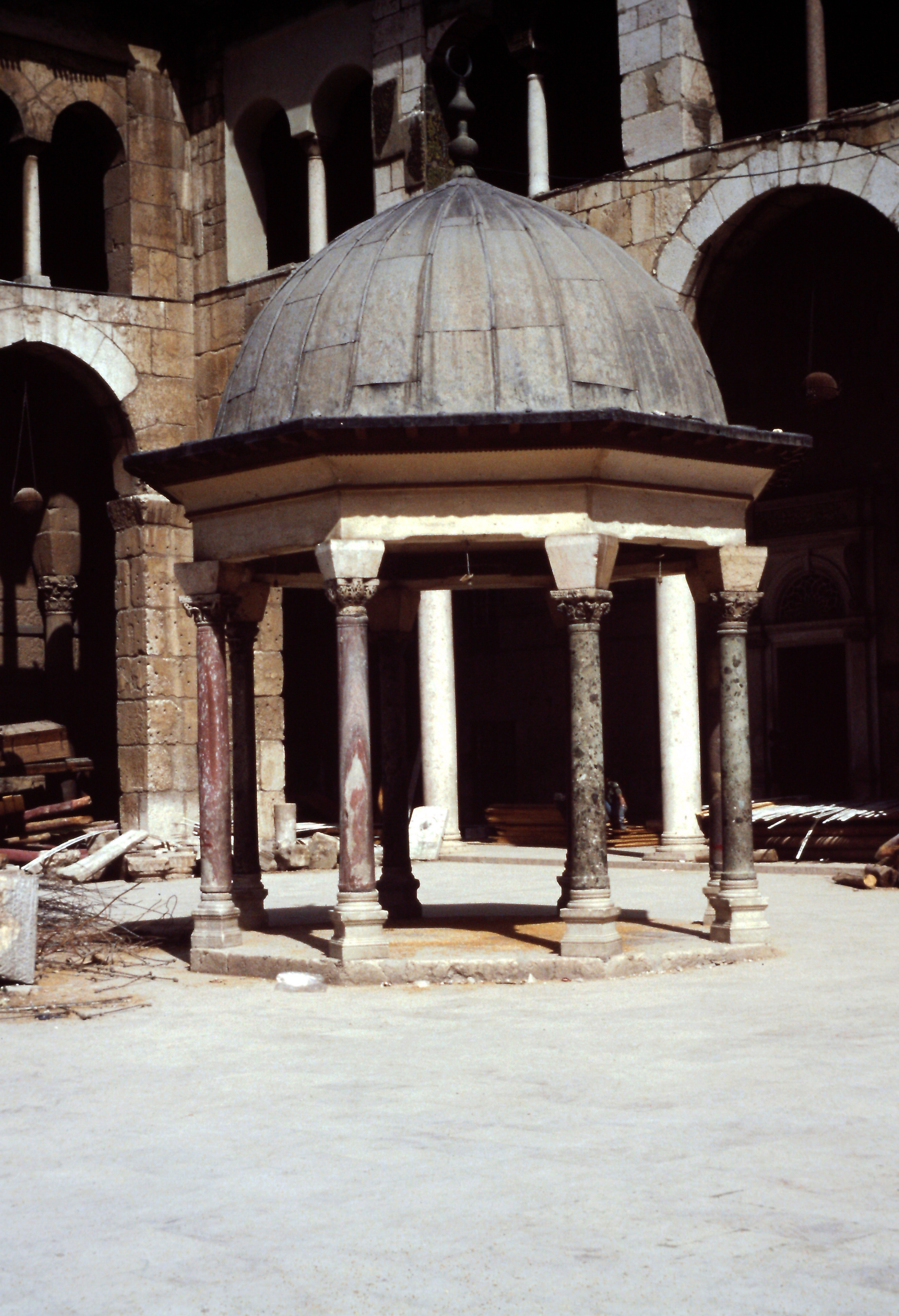 Great Mosque, Damascus, in 1993